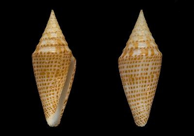 Conus aequiquadratus Monnier, Tenorio, Bouchet & Puillandre, 2018; family Conidae; Madagascar